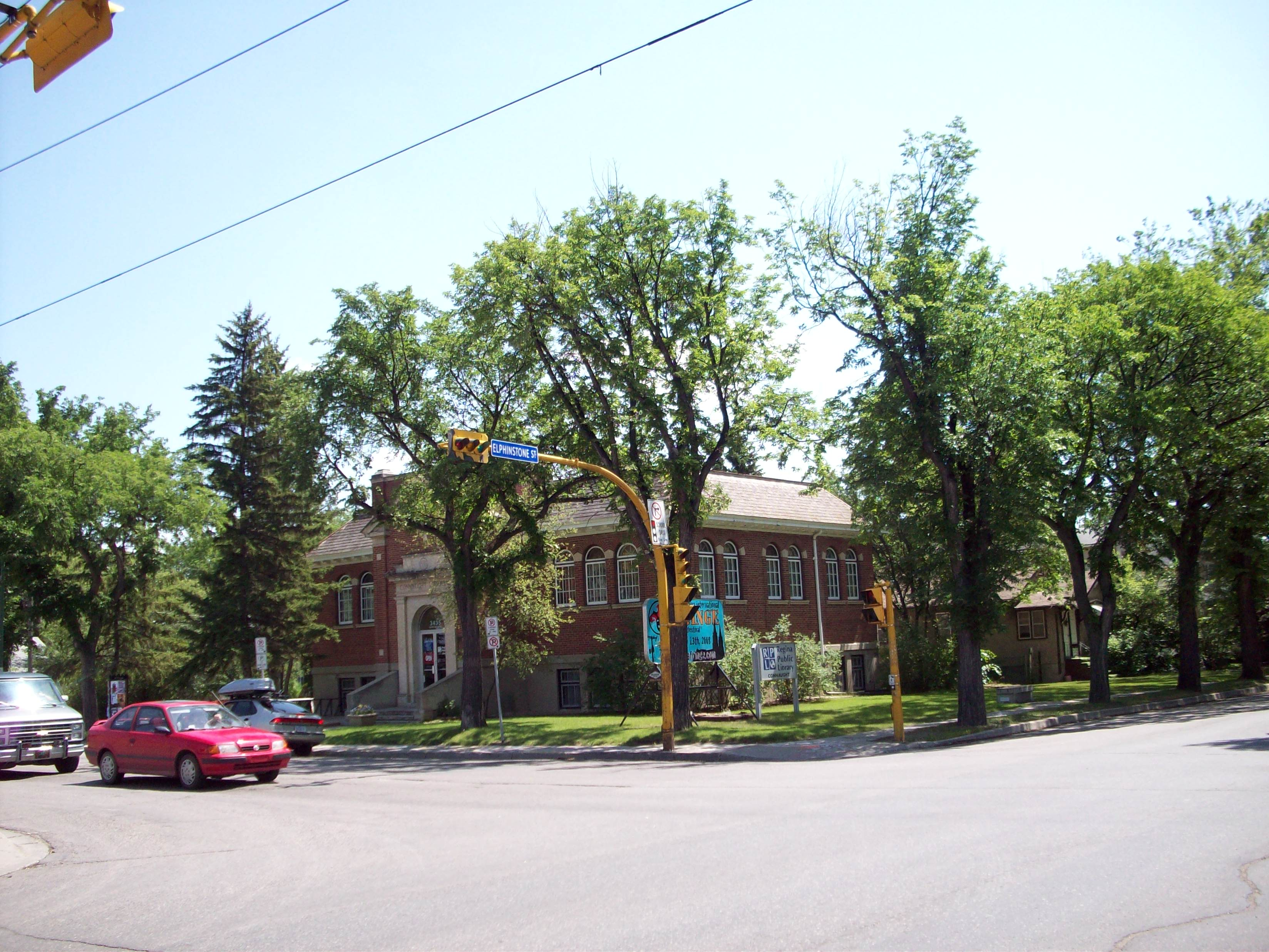 Connaught Library Removed from the following pages: Regina Regina Public Library --OrphanBot (talk) 05:41, 1 August 2008 (UTC)